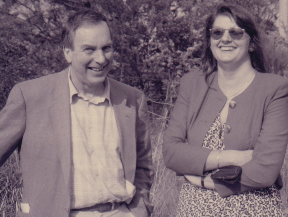 Iain Chalmers (Director of UK Cochrane Centre) and Hilda Bastian (Convenor of Cochrane Consumer Network), at the meeting to announce the Australasian Cochrane Centre, Canberra, Australia.